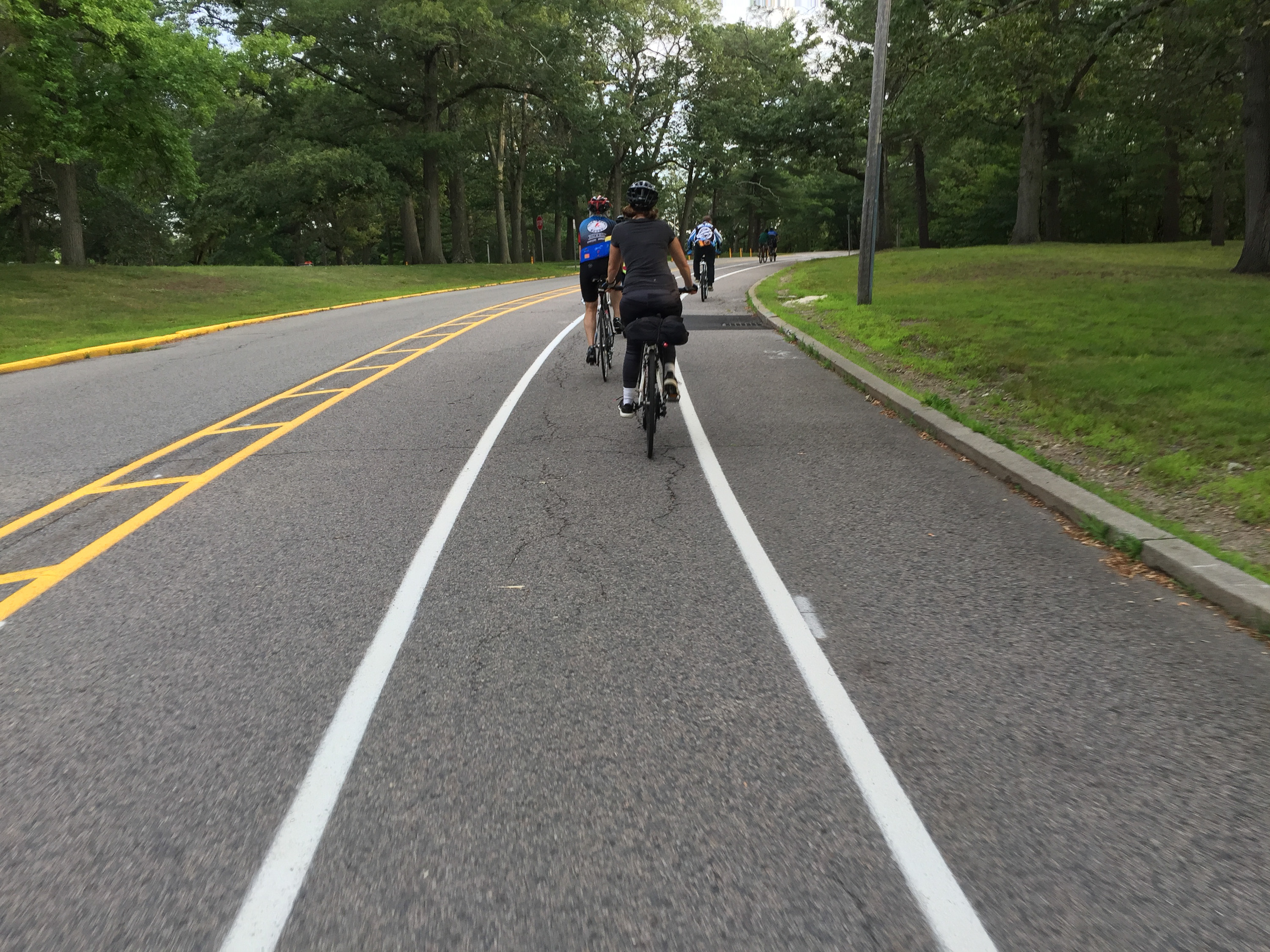 New bike lanes in Roger Williams Park, installed June 2017. Northbound car traffic on the far left, and separate lanes for runners, northbound cyclists, and southbound cyclists.